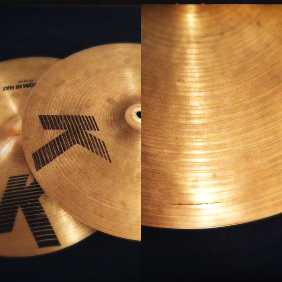 My trusty Ks